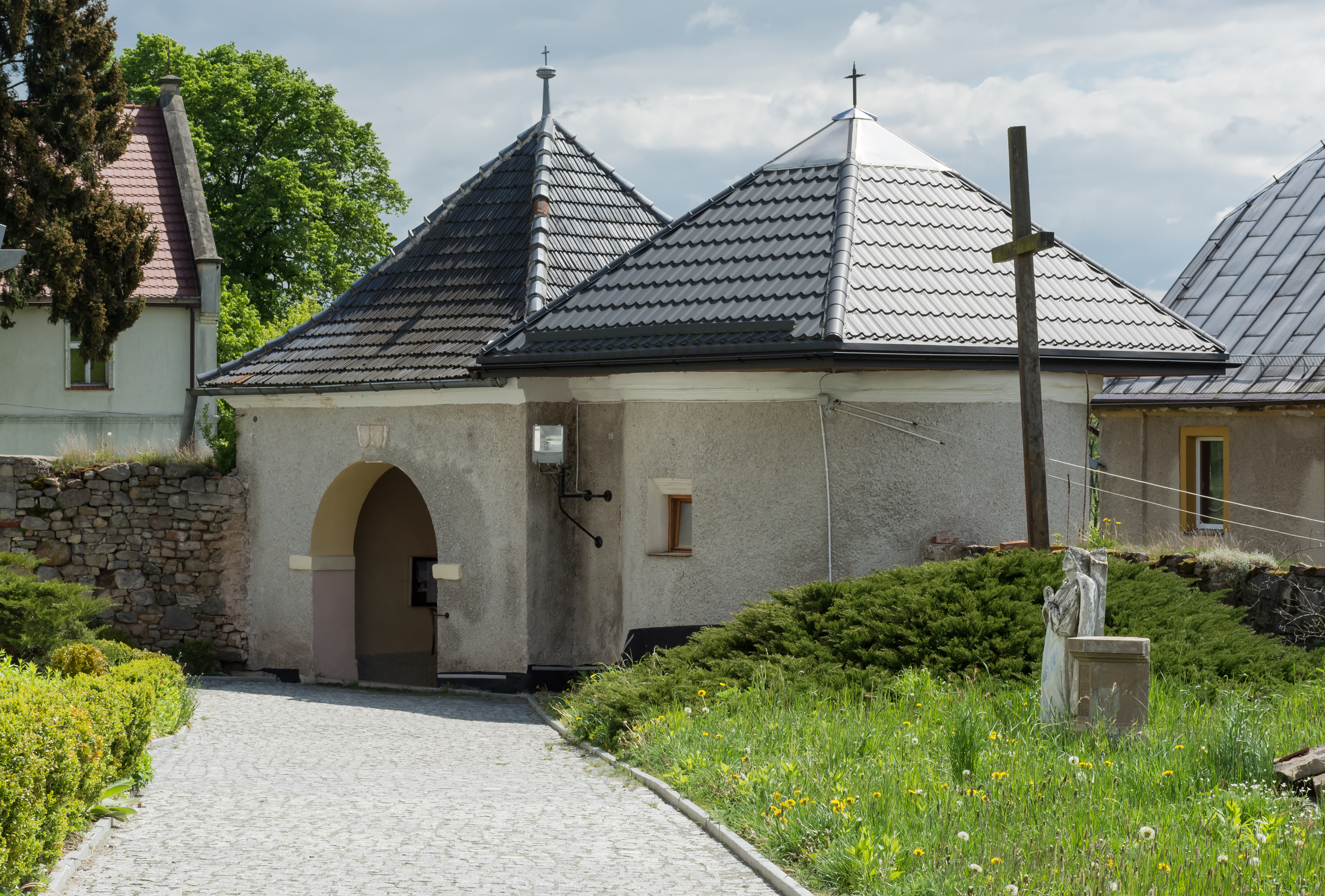 Saint Vitus church in Niwa, gatehouse